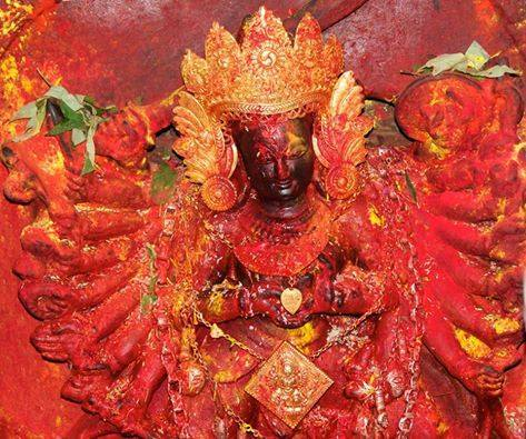 Palanchok Bhagawati Temple Panchkhal-9